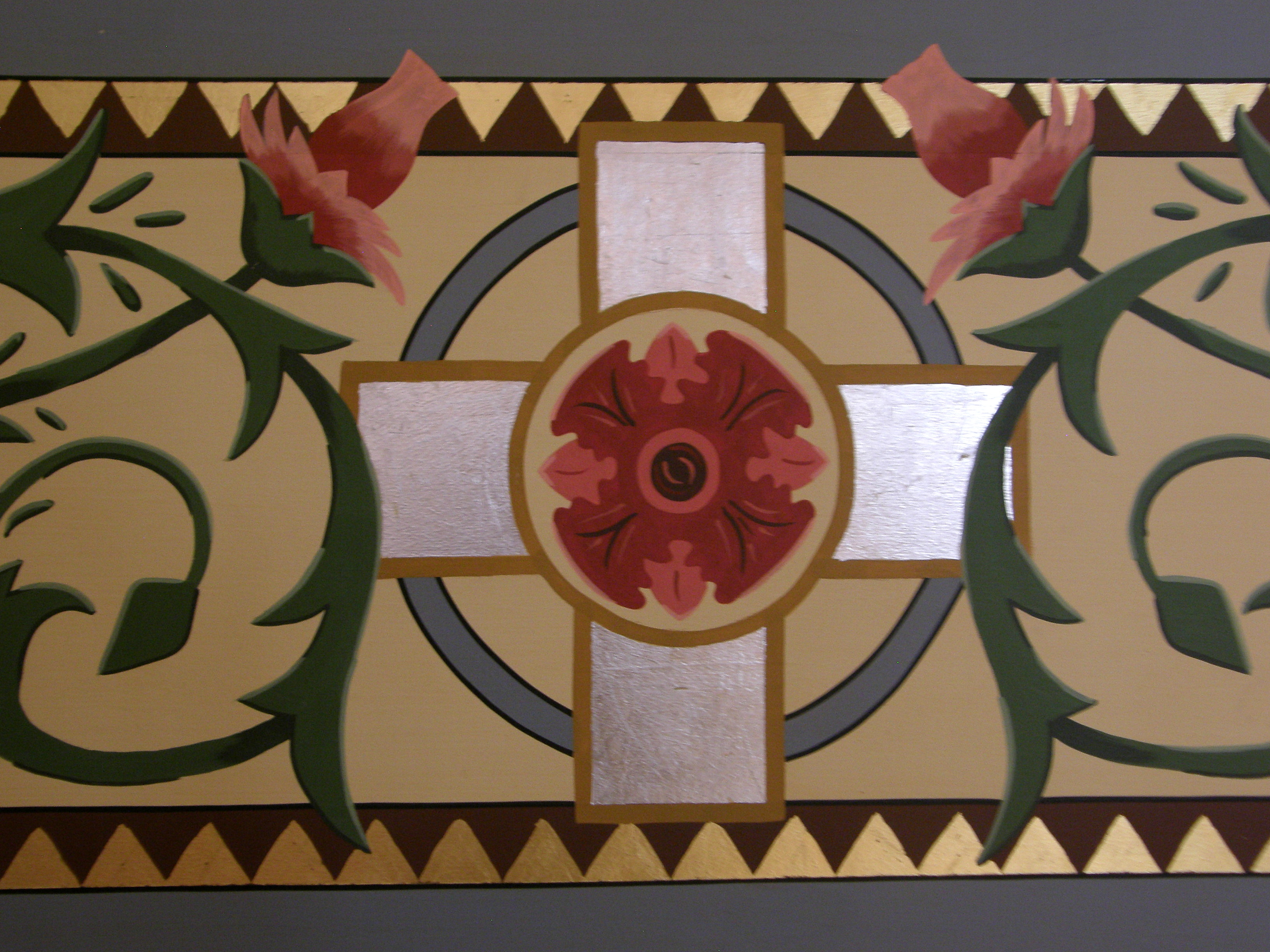 Basilica of Saint Francis Xavier (Dyersville, Iowa), interior, detail of flower pattern on walls 2